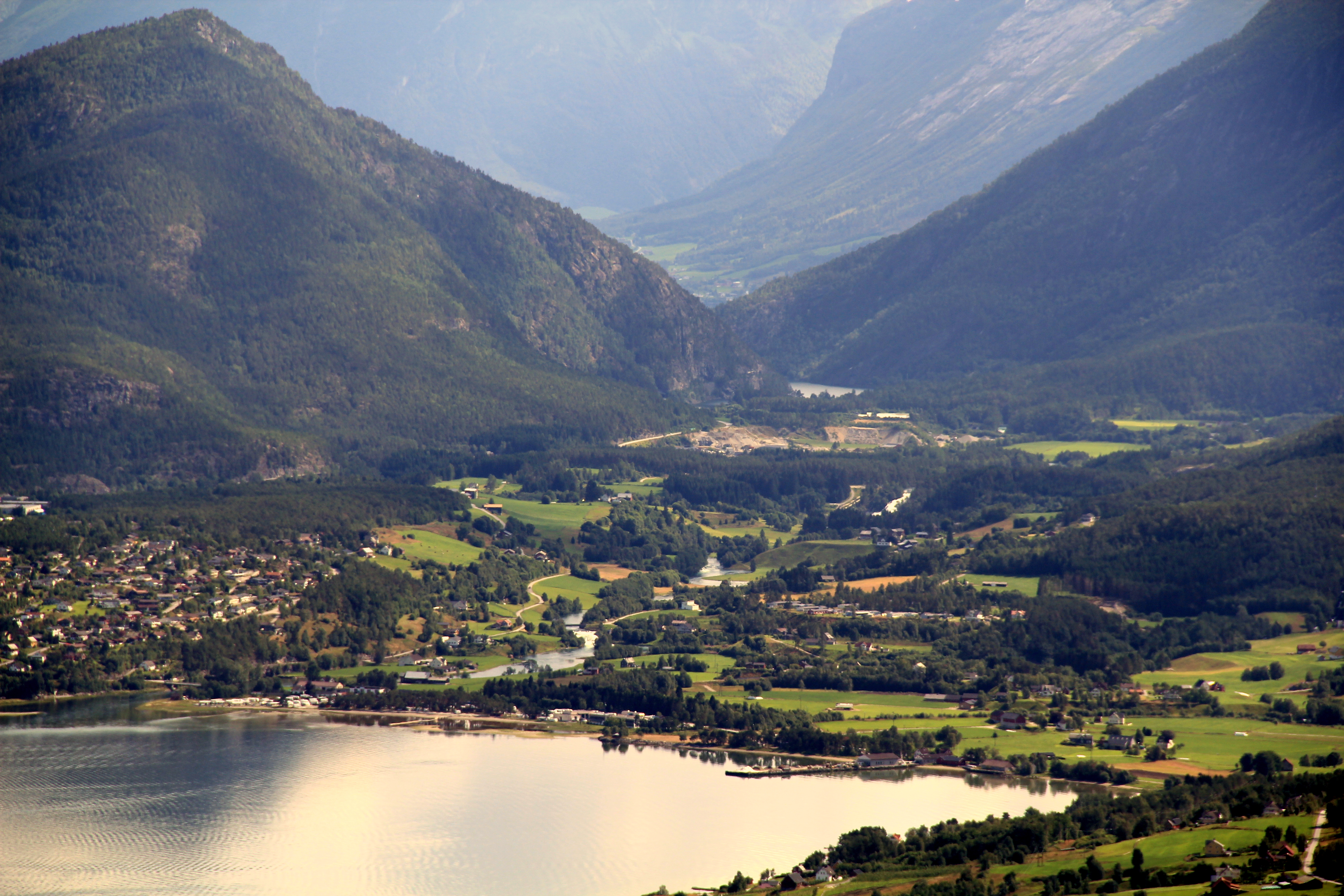 Bukta protected pelagic reserve by Sandane in Gloppen, Norway